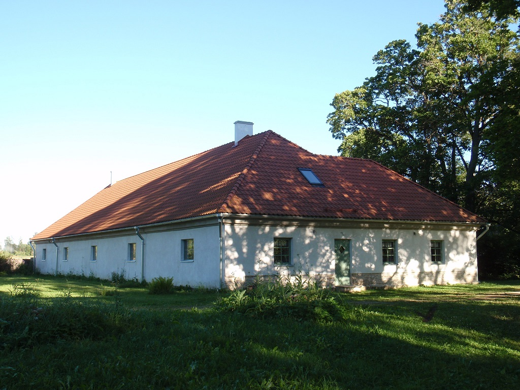 Pada manor storehouse